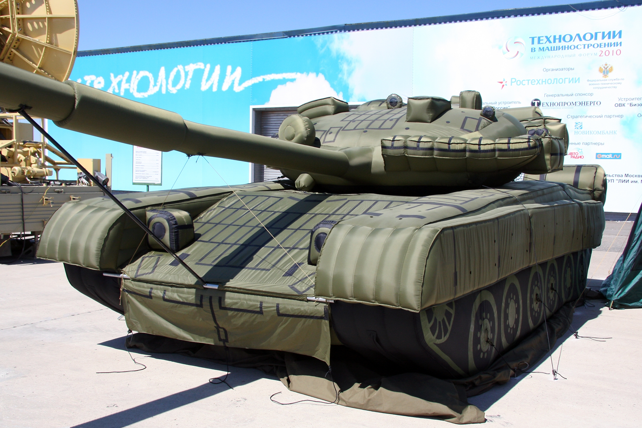 Inflatable T-80BV mock-up.